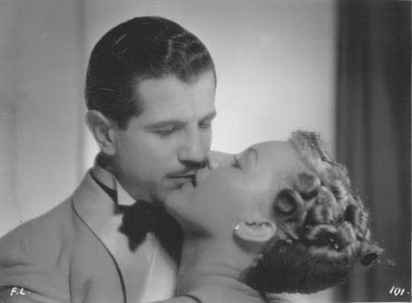 Ambición - película argentina. Floren Delbene & Fanny Navarro